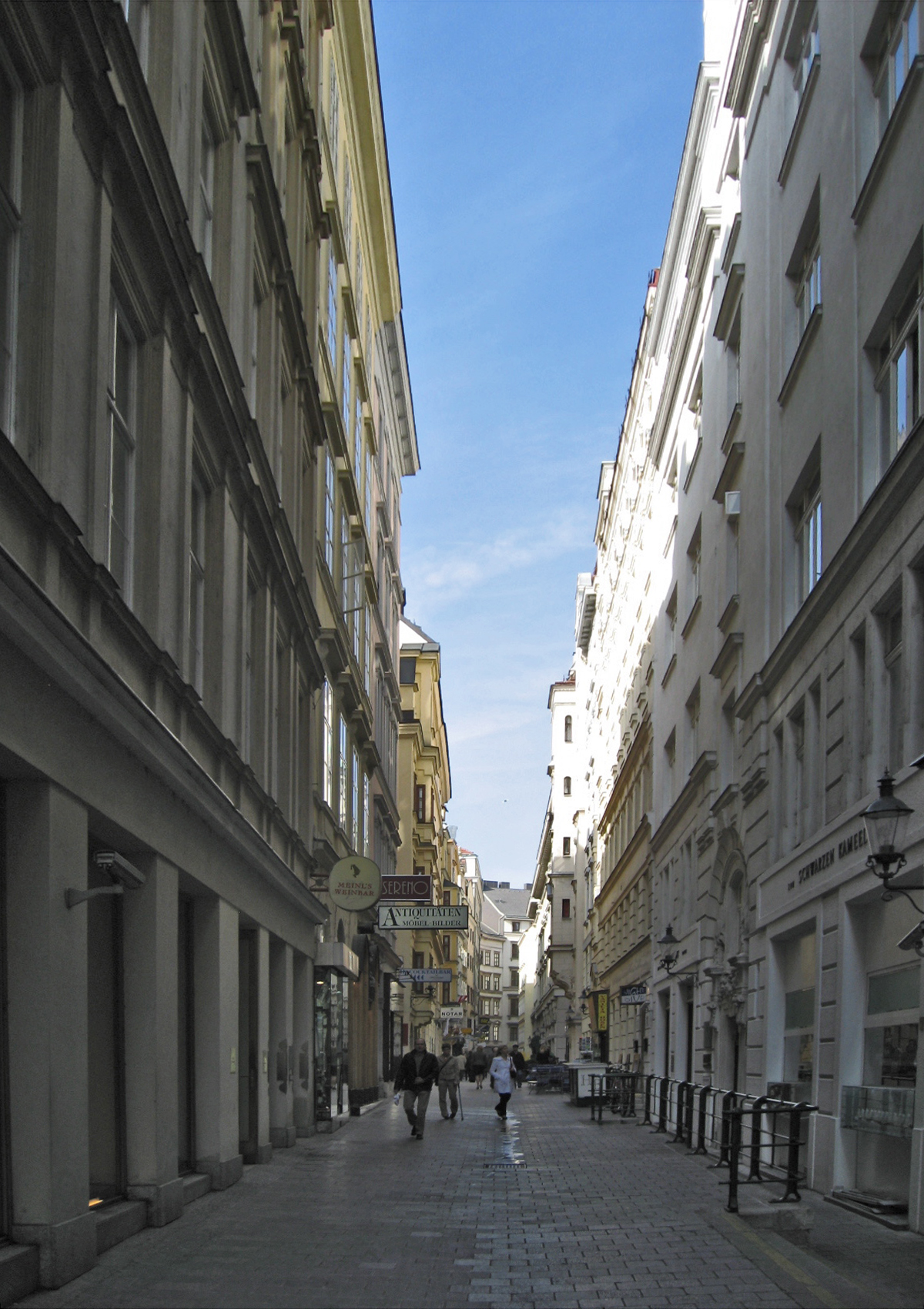 Naglergasse in Vienna I. district